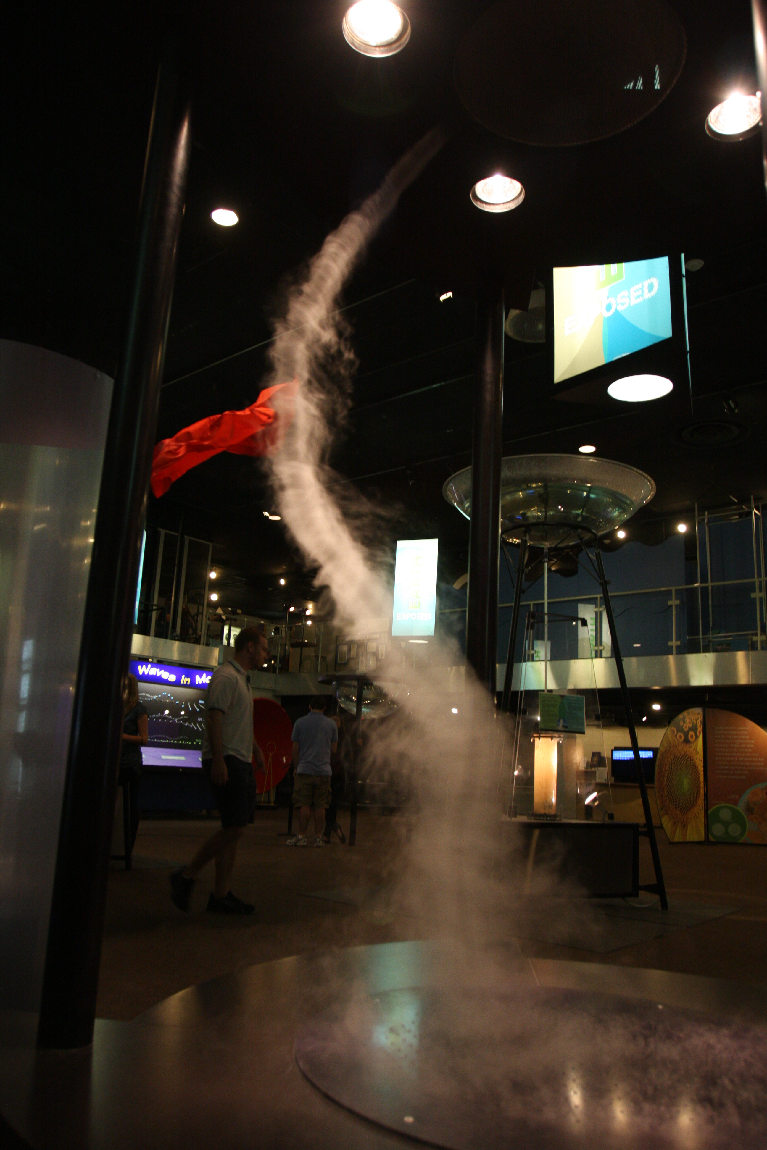 A tornado forms from hot and cold vapor at the Reuben H. Fleet Science Center in San Diego, March 14. Visitors can touch the tornado and experiment with changing air pressure by moving around the whirling cyclone while it fades and reforms over and over again. Nothing at the science center is off-limits - every exhibit is a tactile experience for center visitors.